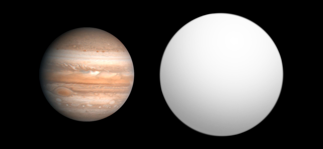 Comparison of best-fit size of the exoplanet TrES-3 b with the Solar System planet Jupiter, as reported in the Extrasolar Planets Encyclopaedia[1] as of 2010-10-03. ↑ Extrasolar Planets Encyclopaedia (2010-09-30). Retrieved on 2010-10-03.